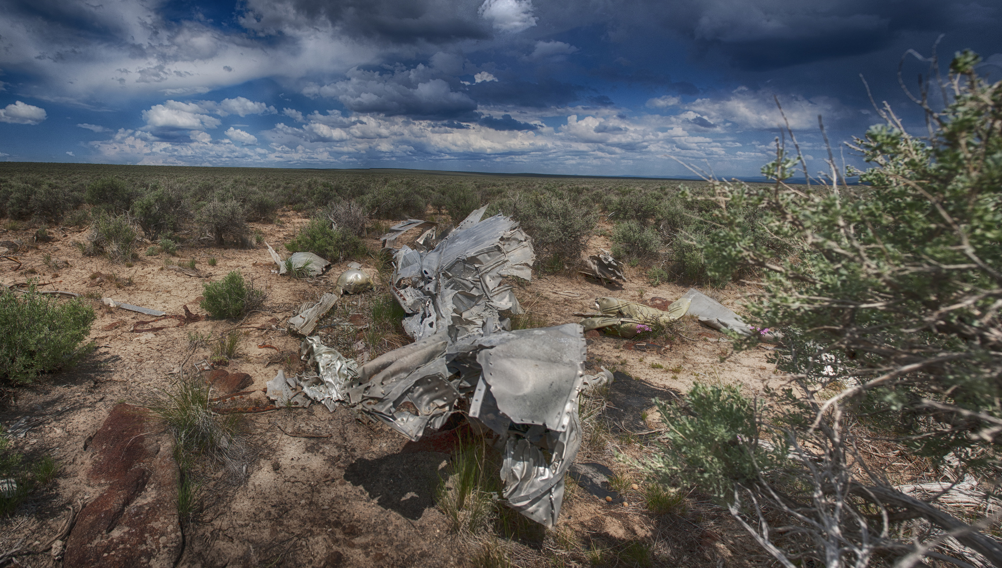 Burma Rim in southern Oregon is a veritable air crash museum. Spanning nearly 30 years, this site has witnessed two major military airplane accidents. The first, a World War II airplane, dropped out of the sky to rapidly descend two miles before hitting the ground. And then in 1973, a Vietnam-era aircraft augered in, leaving a debris field spread over three-quarters of a mile in its wake. Eerily, the two are located within one mile of each other in an Oregon desert location managed by the BLM’s Lakeview District. The first debris field contains the remnants of Lieutenant Clark’s Lockheed P-38 Lightning that went down during a gunnery training flight. The second downed plane is a Navy Grumman A-6 Intruder Bomber from the Naval Air Station at Whidbey Island, Washington. This aircraft hurtled to the ground in 1973 during a low-level night training mission. To honor these veterans, the BLM officially declared the two aircraft crash scenes historic Federal sites at a Flag Day ceremony on June 14, 2007. At the official ceremony, representatives unveiled interpretive plaques which pay tribute to the military and provide context for the historic significance of each location. Photos and story sections by Kevin Abel, BLM